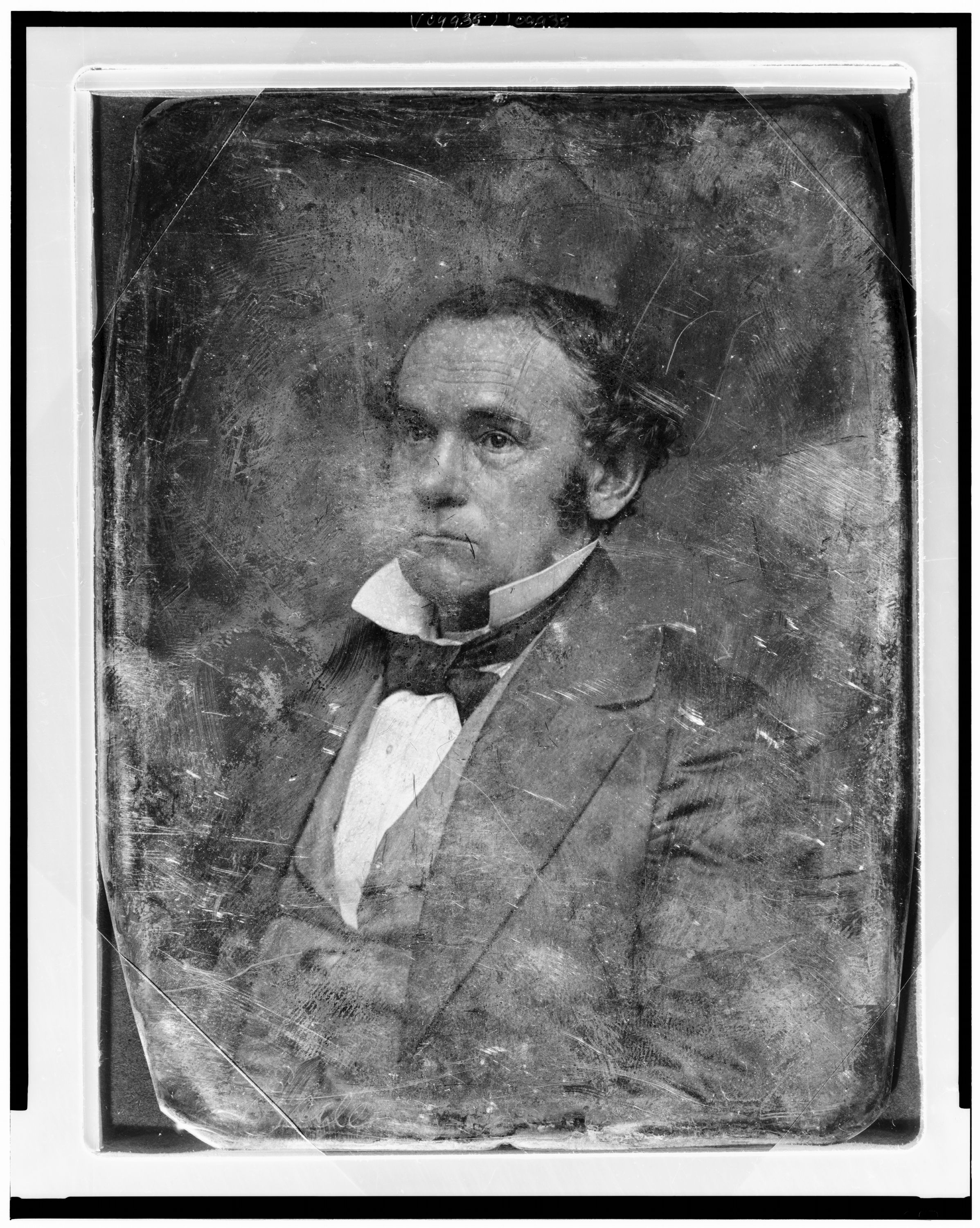 Pliny Earle, three-quarters to left . Author and physician.